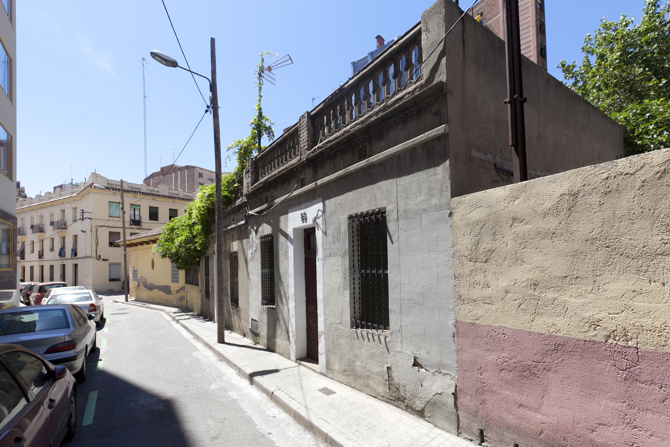 Historical Routes at the Horta-Guinardó District Administration in Barcelona This image was provided to Wikimedia Commons by the Horta-Guinardó District Administration in Barcelona as part of an ongoing cooperative project with Amical Viquipèdia. English | +/−